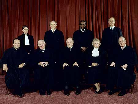 U.S. Supreme Court, 1998 Back row (left to right): Ruth Bader Ginsburg, David Hackett Souter, Clarence Thomas, Stephen Breyer; front row (left to right): Antonin Scalia, John Paul Stevens, William Hubbs Rehnquist, Sandra Day O'Connor, Anthony M. Kennedy.